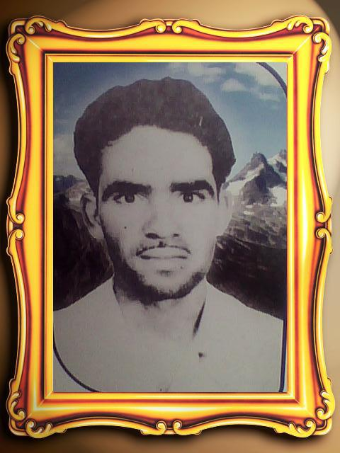 حساني عبد الكريم